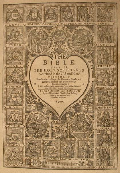 A false title page of a Geneva Bible printed in Amsterdam in 1633, but purporting to have been printed in London in 1599